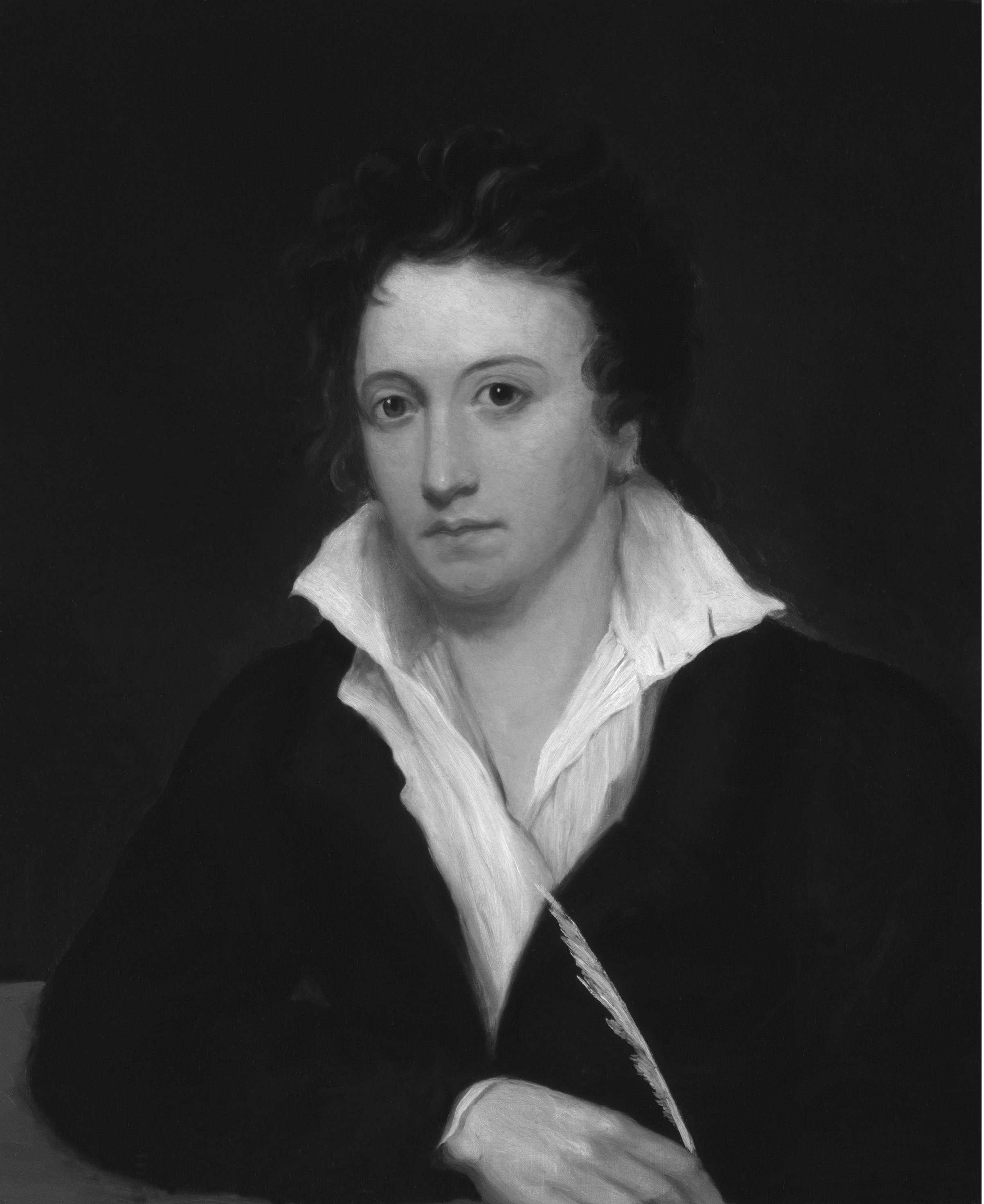 pg 6 of The complete poetical works of Percy Bysshe Shelley, including materials never before printed in any edition of the poems.